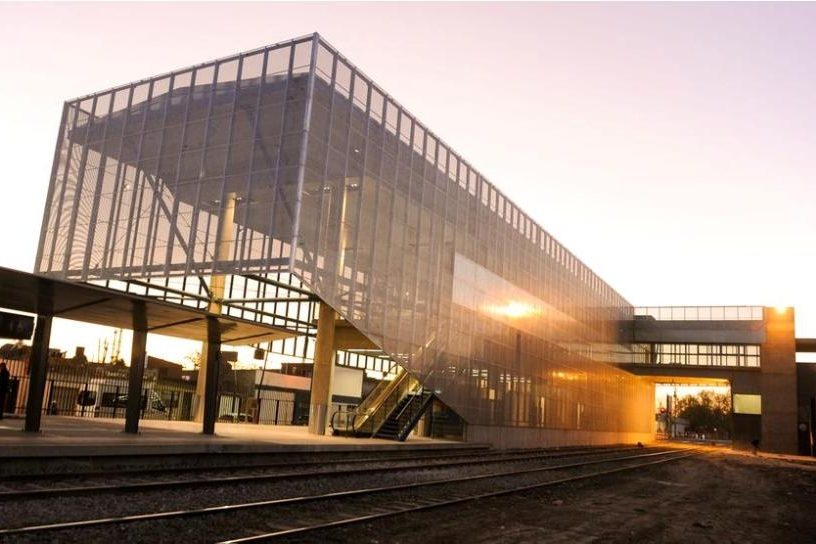 Rosario Sur train station, inaugurated in July 2015.